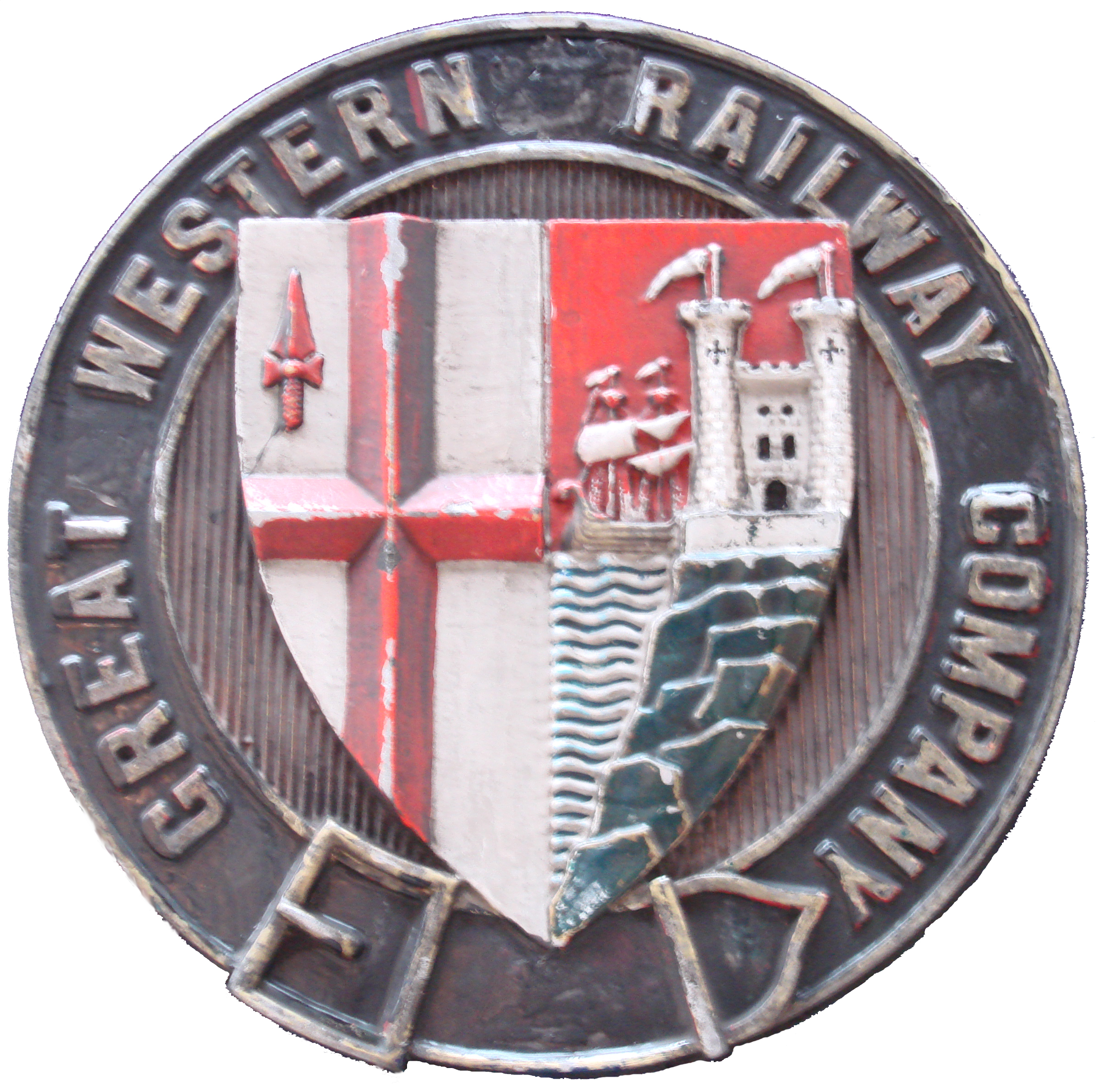 Great Western Railway Shield on number 43185